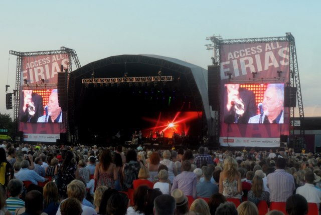 Tom Jones concert at Eirias Park